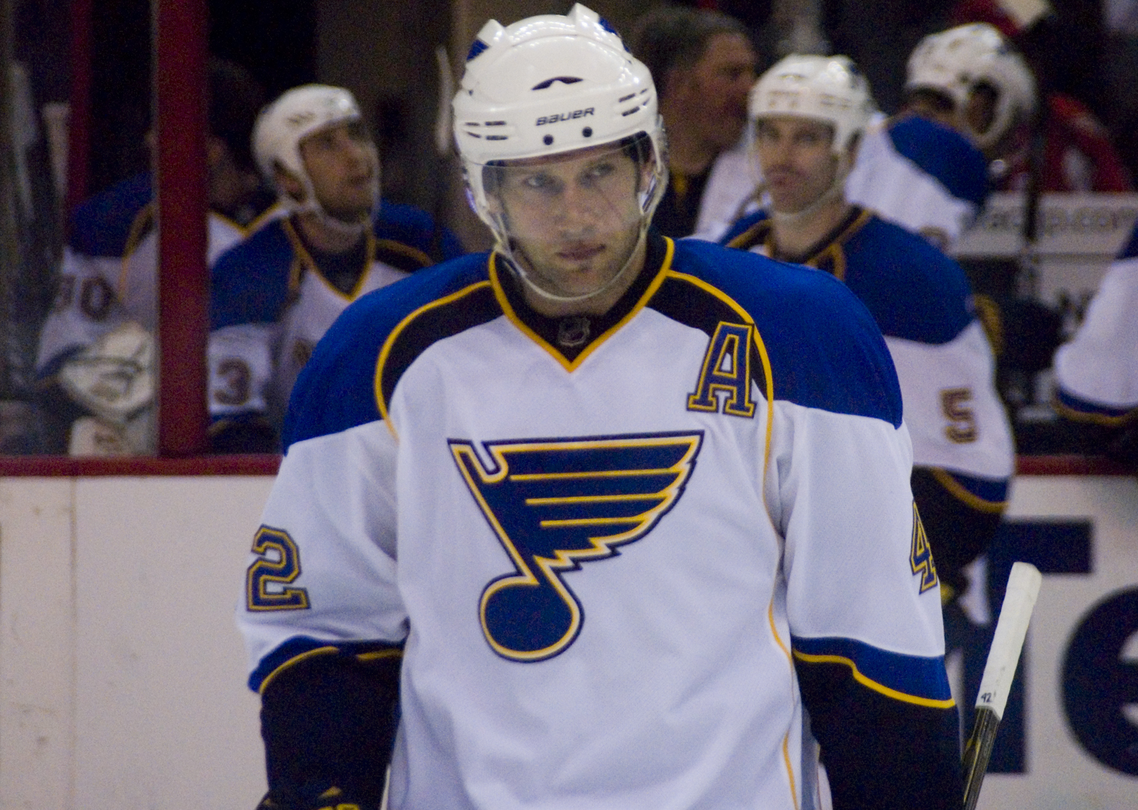 ERI_5332 Photo taken on March 3, 2011 by Sarah Connors. St. Louis Blues vs. Washington Capitals – National Hockey League (NHL) This photo also appears in sarah_connors' Flickr photostream Blues @ Caps, 3/3/11 (Set: 134) Flickr Tags: St. Louis Blues, Washington Capitals, Capitals, Caps, Blues, hockey, icehockey, NHL, Verizon Center